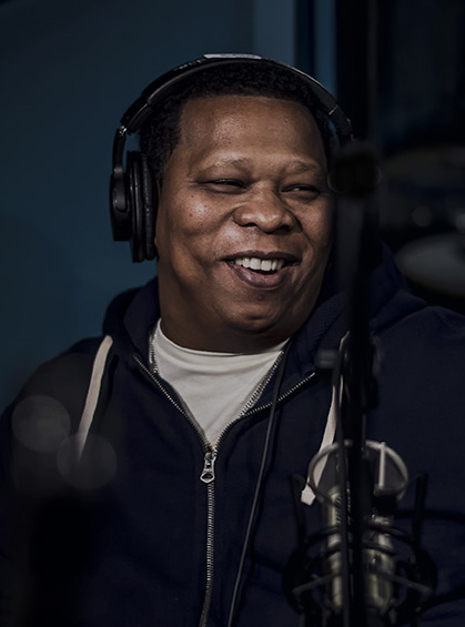 Mannie Fresh interview on The Come Up Show Podcast Shot by Erin Cazes Check out the interview at